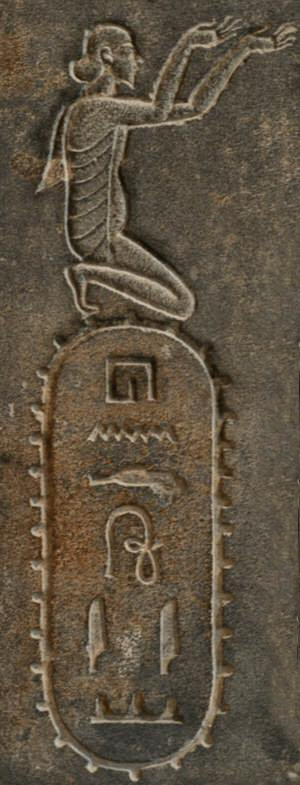 Darius I statue India. National Museum of Iran. The seal reads 𓉔𓈖𓂧𓍯𓇌 (H-n-d-wꜢ-y, India) in Alphabetical (phonetical) hieroglyph [1].[1]